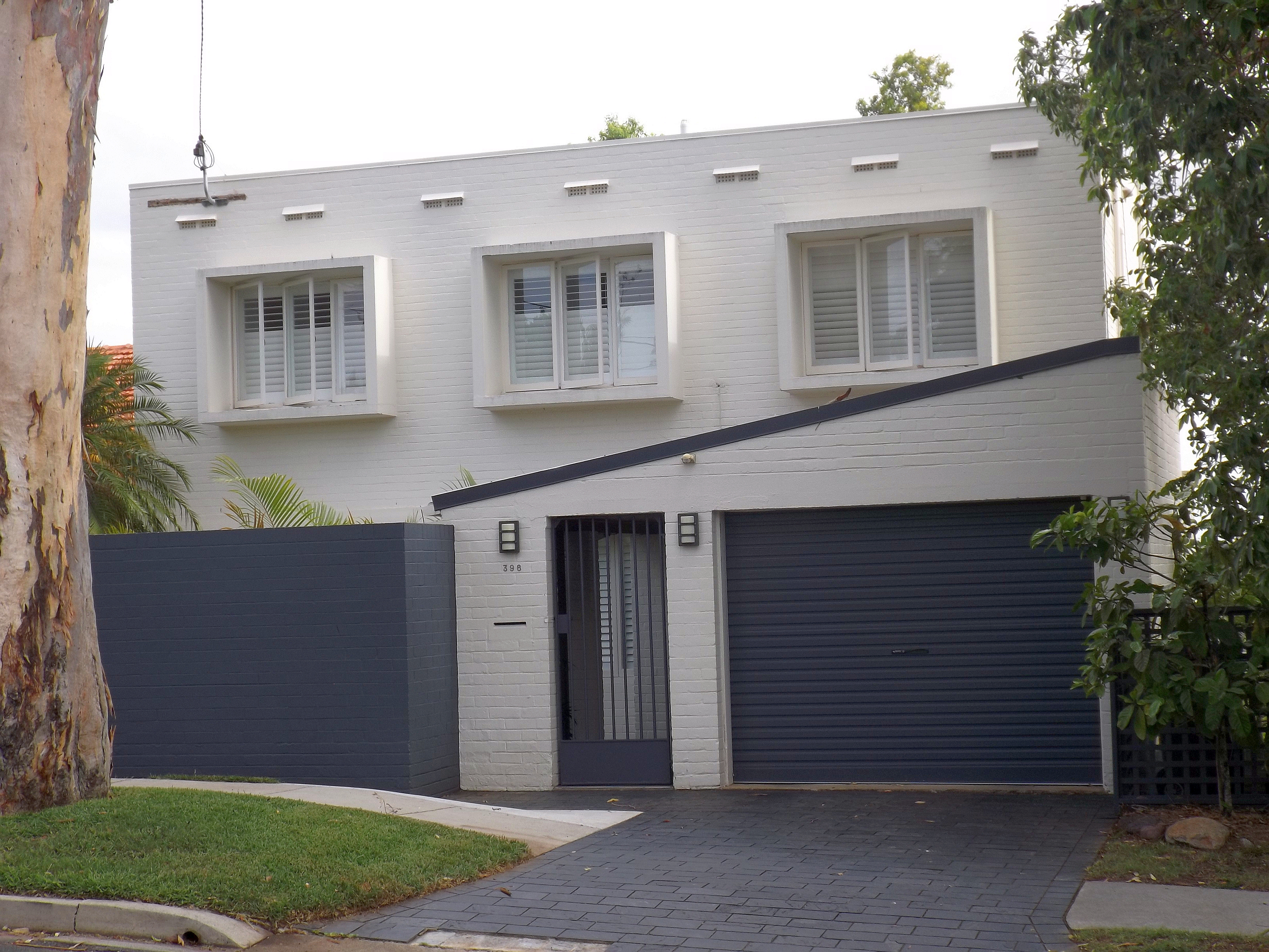 Photo of Langer House at St Lucia, Brisbane, Queensland, Australia.